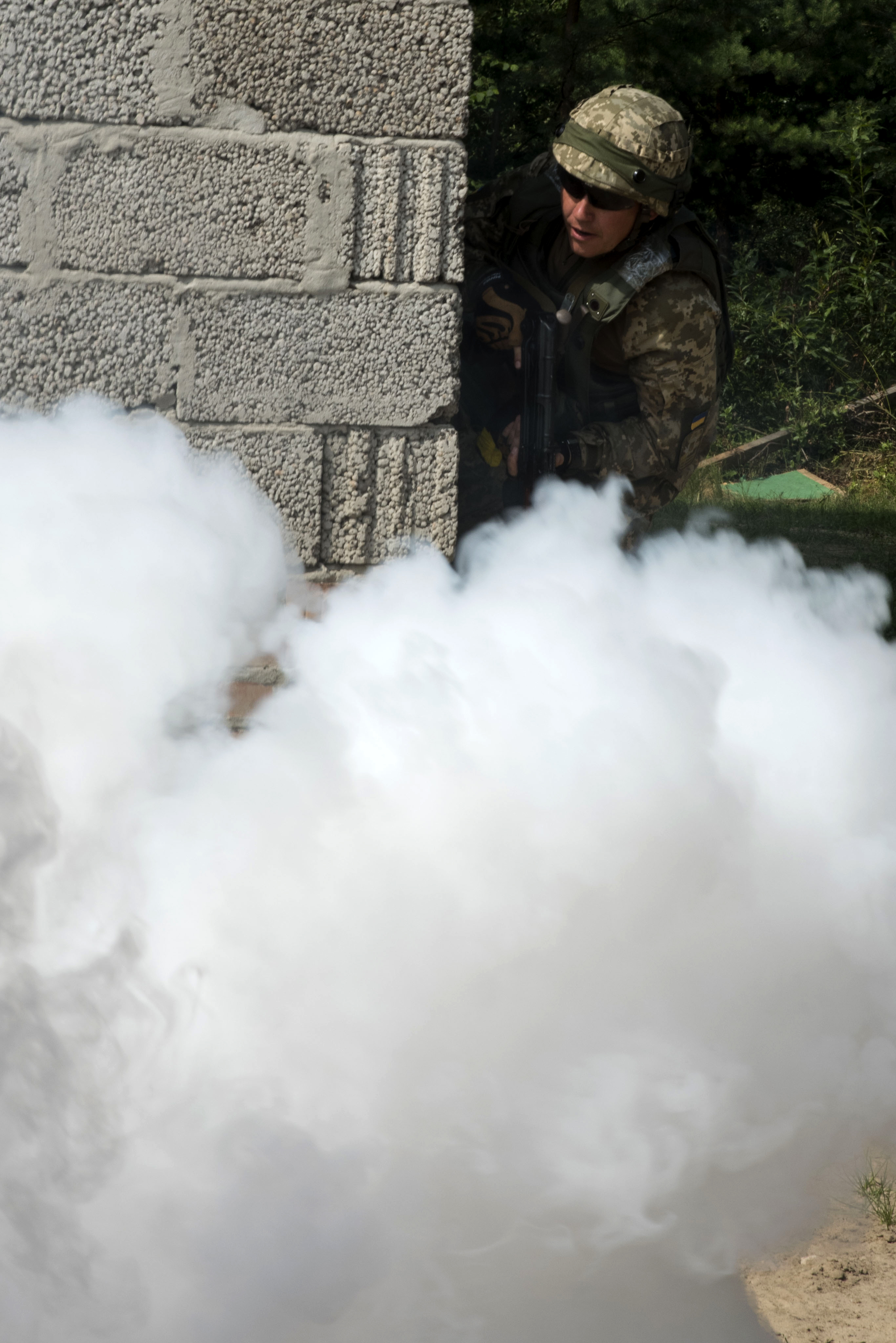 A Ukrainian soldier prepares to search a building for a high value target during security opeartions training at Exercise Rapid Trident 16 July 1, 2016. The exercise is a regional command post and field training exercise that involves about 2,000 Soldiers from 13 different nations, being held at the International Peacekeeping and Secruity Center in Yavoriv, Ukraine June 27 - July 8, 2016.